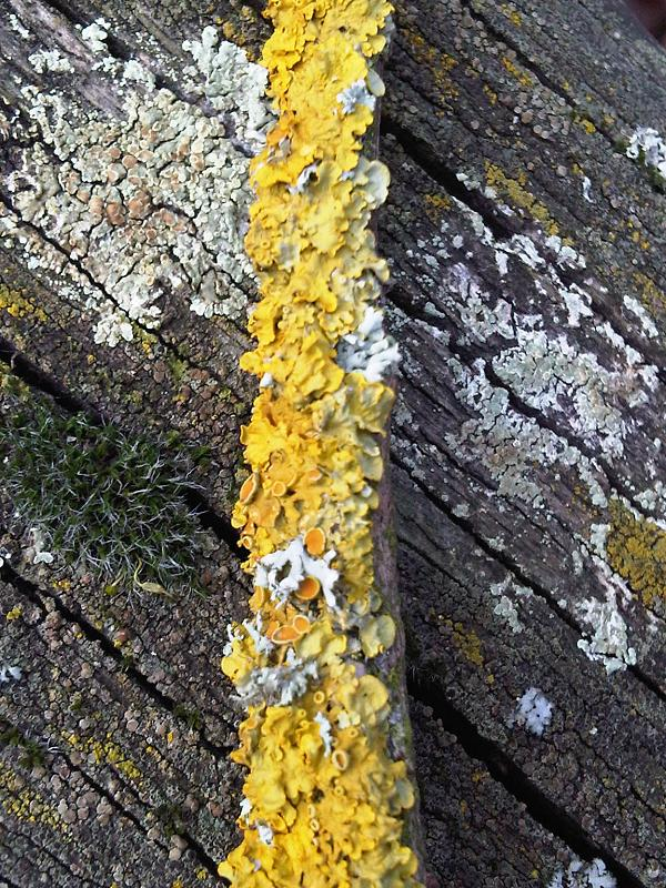 Common orange lichen, also known as yellow scale, maritime sunburst lichen and shore lichen (Xanthoria parietina) in London, England.